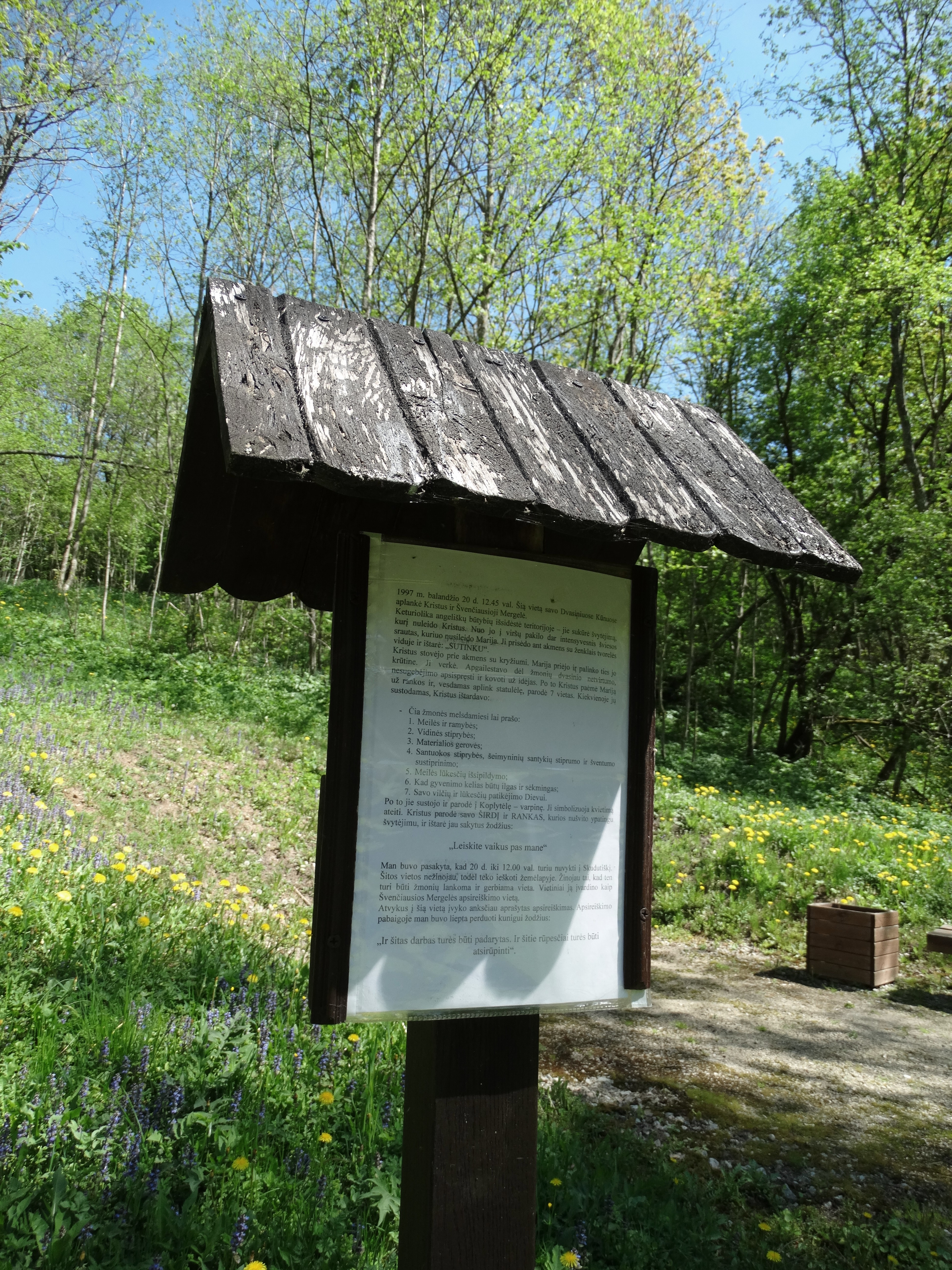 Chapel in Skudutiškis, Molėtai district, Lithuania